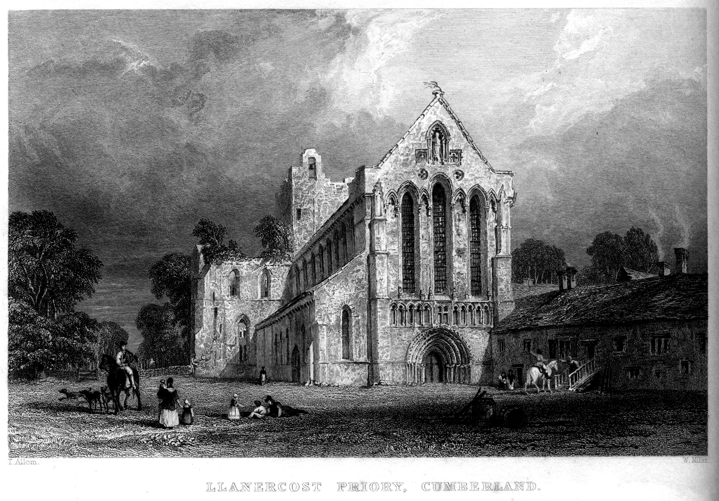 Llanercost Priory, Cumberland engraving by William Miller after Thomas Allom, published in Westmoreland, Cumberland, Durham & Northumberland. Illustrated from original drawings by Thomas Allom etc. With historical & topographical descriptions by Thomas Rose. Fisher Son and Co., London 1832